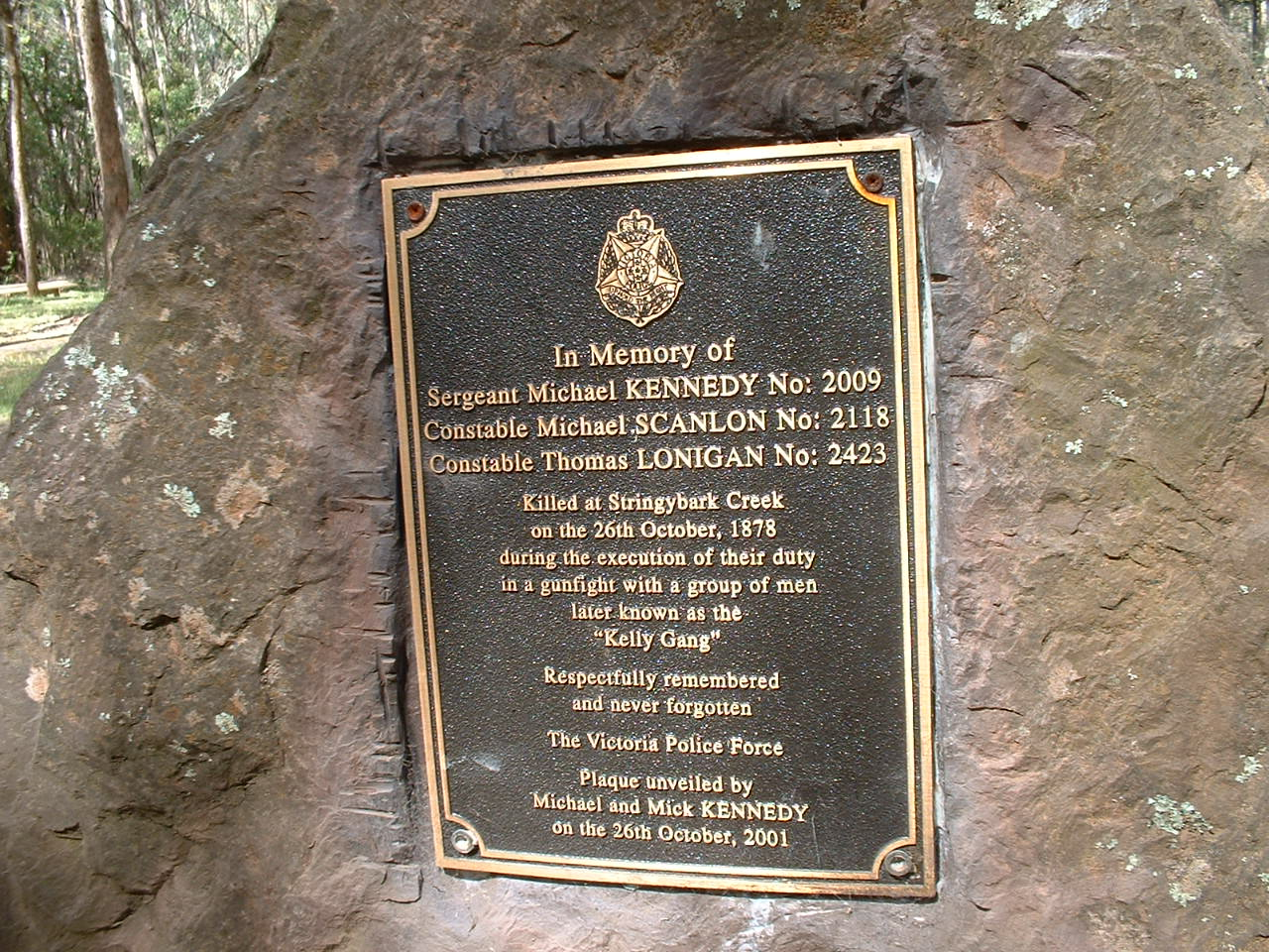 Plaque on the Stringybark Creek Memorial, near Tolmie, Victoria, Australia. Near the site where three policemen were murdered in 1878 by bushranger Ned Kelly